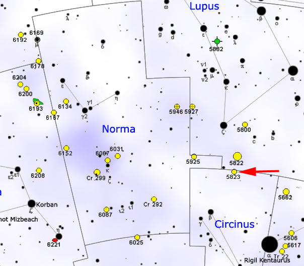 Map of NGC 5823